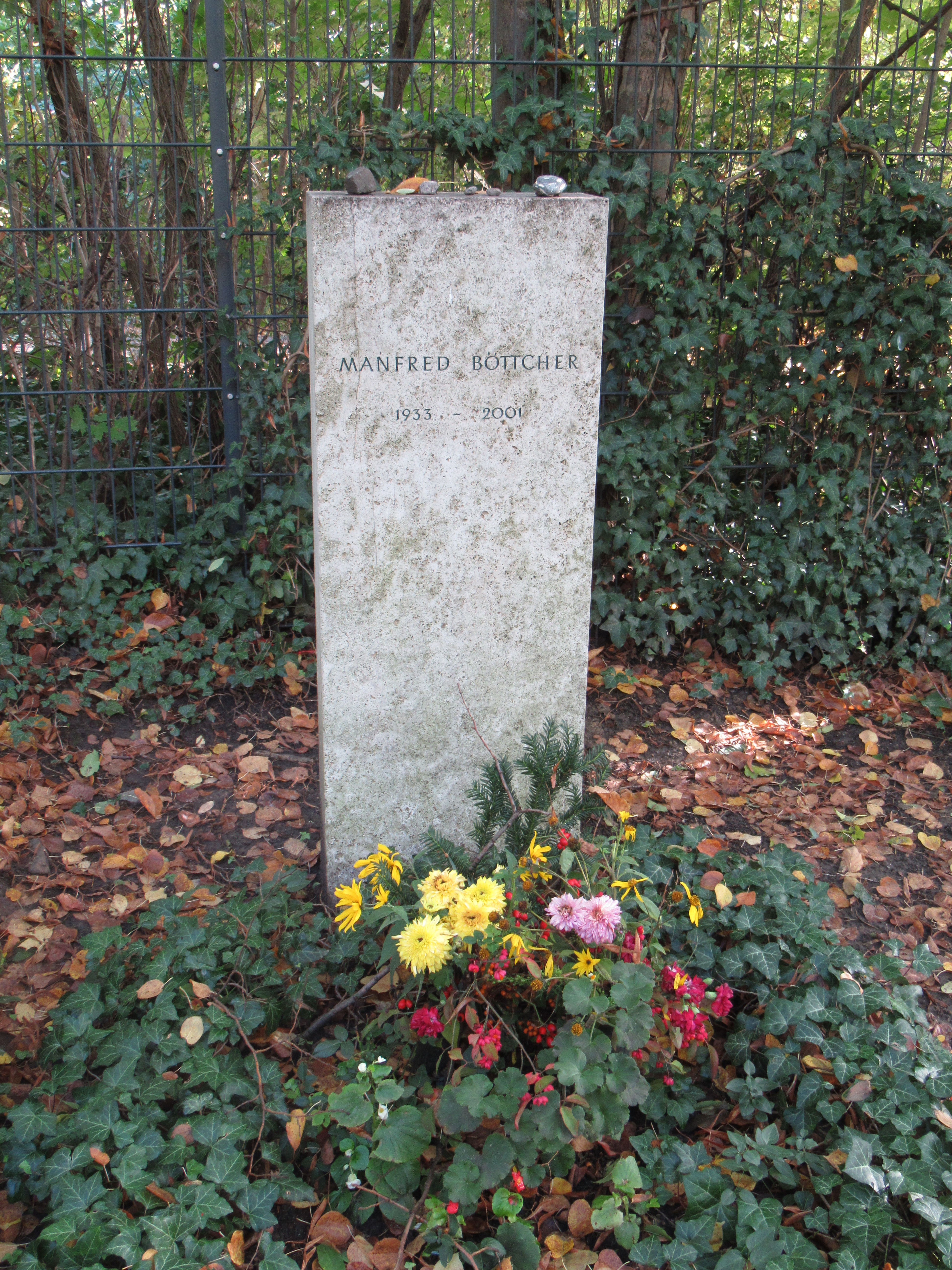 Grave of German painter Manfred Böttcher (painter) at Friedhof Kaulsdorf in Berlin-Kaulsdorf